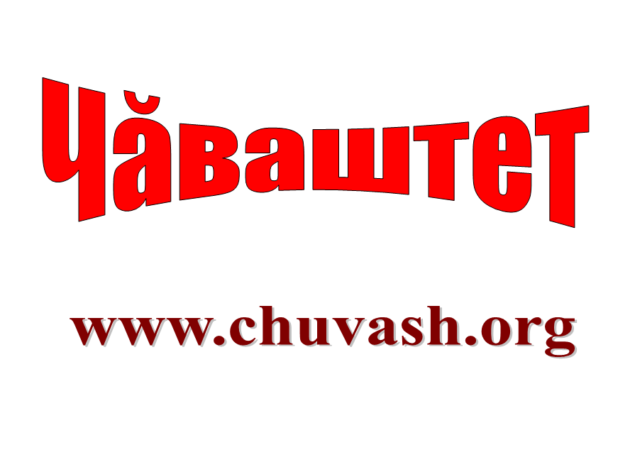 The first use of the name of the Chuvash Internet